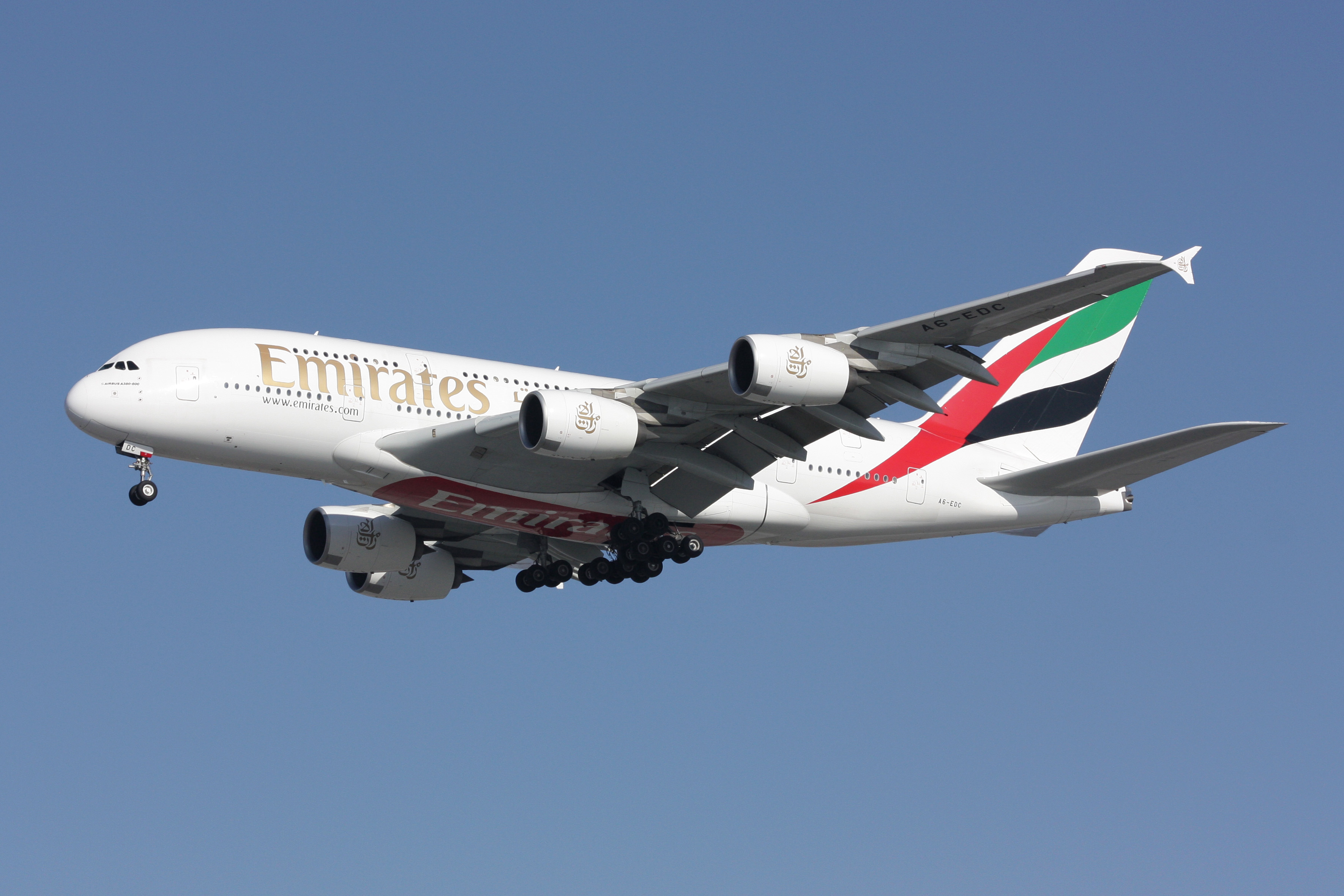 Airbus A380 on final approach to Runway 27R at Paris-Charles de Gaulle Airport.